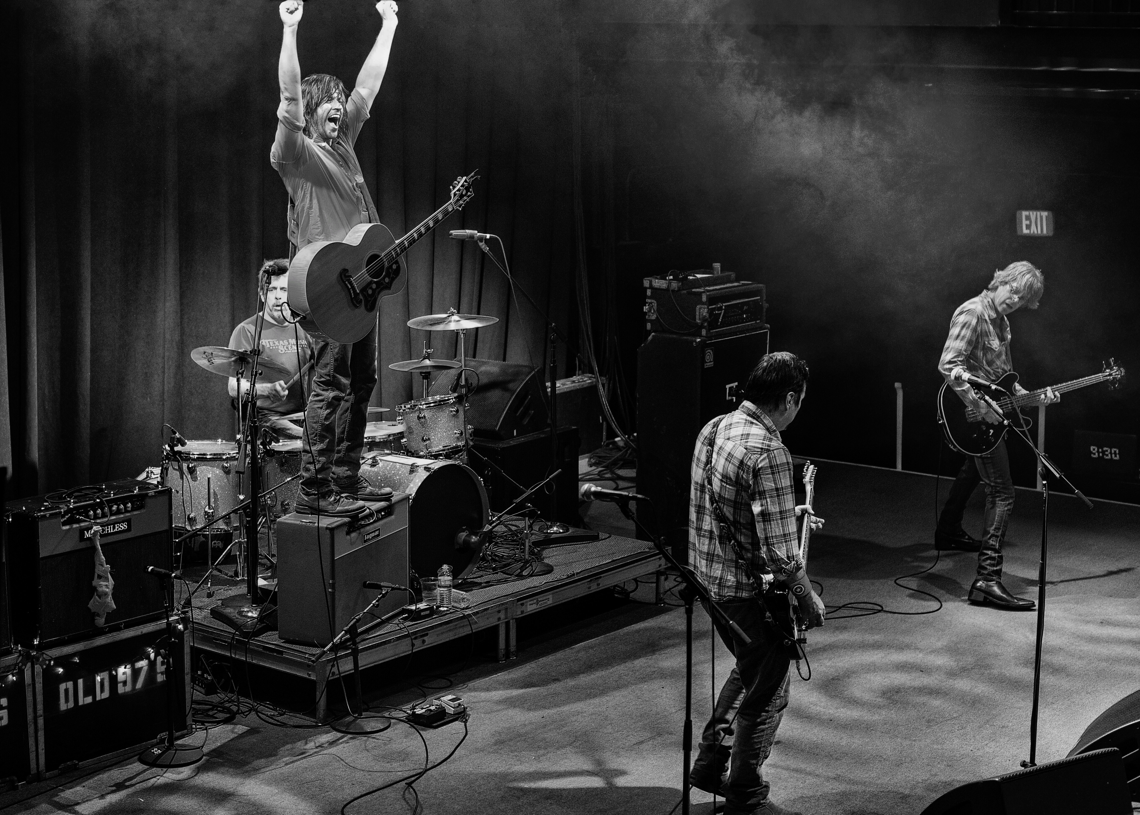 Old 97s // 9:30 Club in Washington, DC // fall 2015